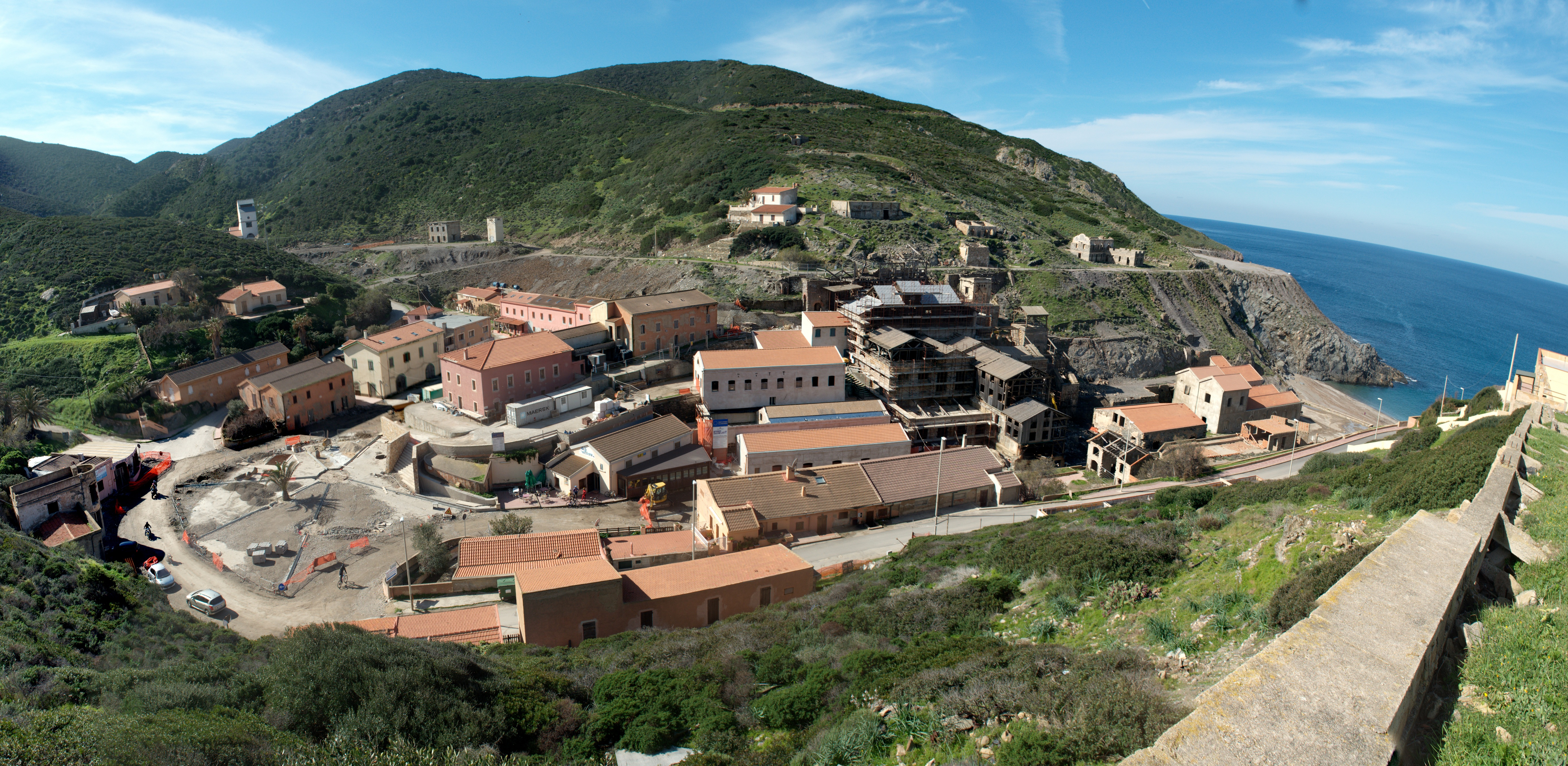 Argentiera is a former mining town, its name comes from the Italian argento, that means silver. The mine was exploited since the ancient era, from the Romans and the Phoenicians. It was reopened in 19th century by a Belgian company, called "Società di Corr'e boi". The French writer Honoré de Balzac, explored the village in 1838. The most florid period for the mining village were the 1940s. The town declined after World War II, and the mine was closed in 1963. Today the village is abandoned, and it is one of the most important example of industrial archaeology in Sardinia, it is included in the Geological-Mining Park of Sardinia and preserved from UNESCO.